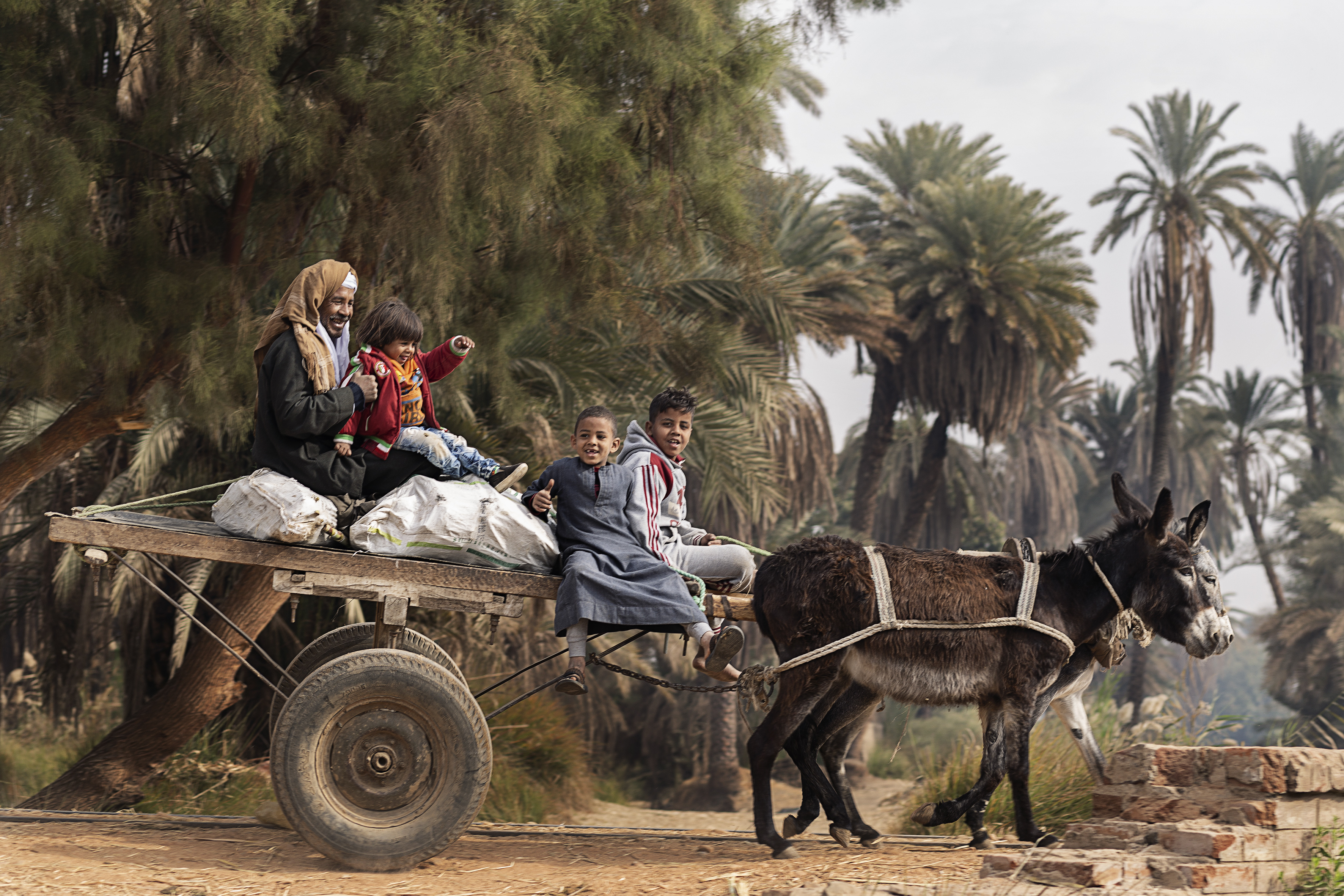 A donkey drawn cart, the image is typical of the life style in Aswan This is an image with the theme "Africa on the Move or Transport" from: Egypt